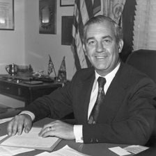 John Glenn Beall, Jr., former member of the United States Senate from Maryland.